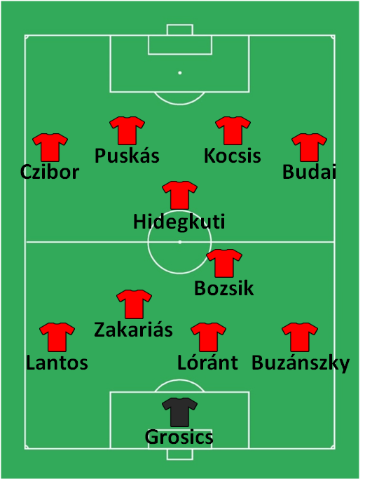 England-Hungary 1953, hungarian 4-2-4 formation